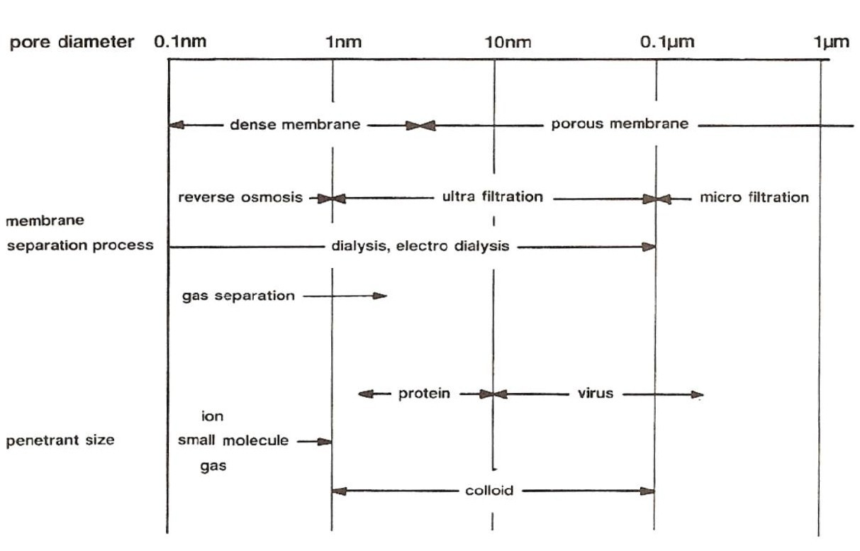 Ranges of membrane based separations